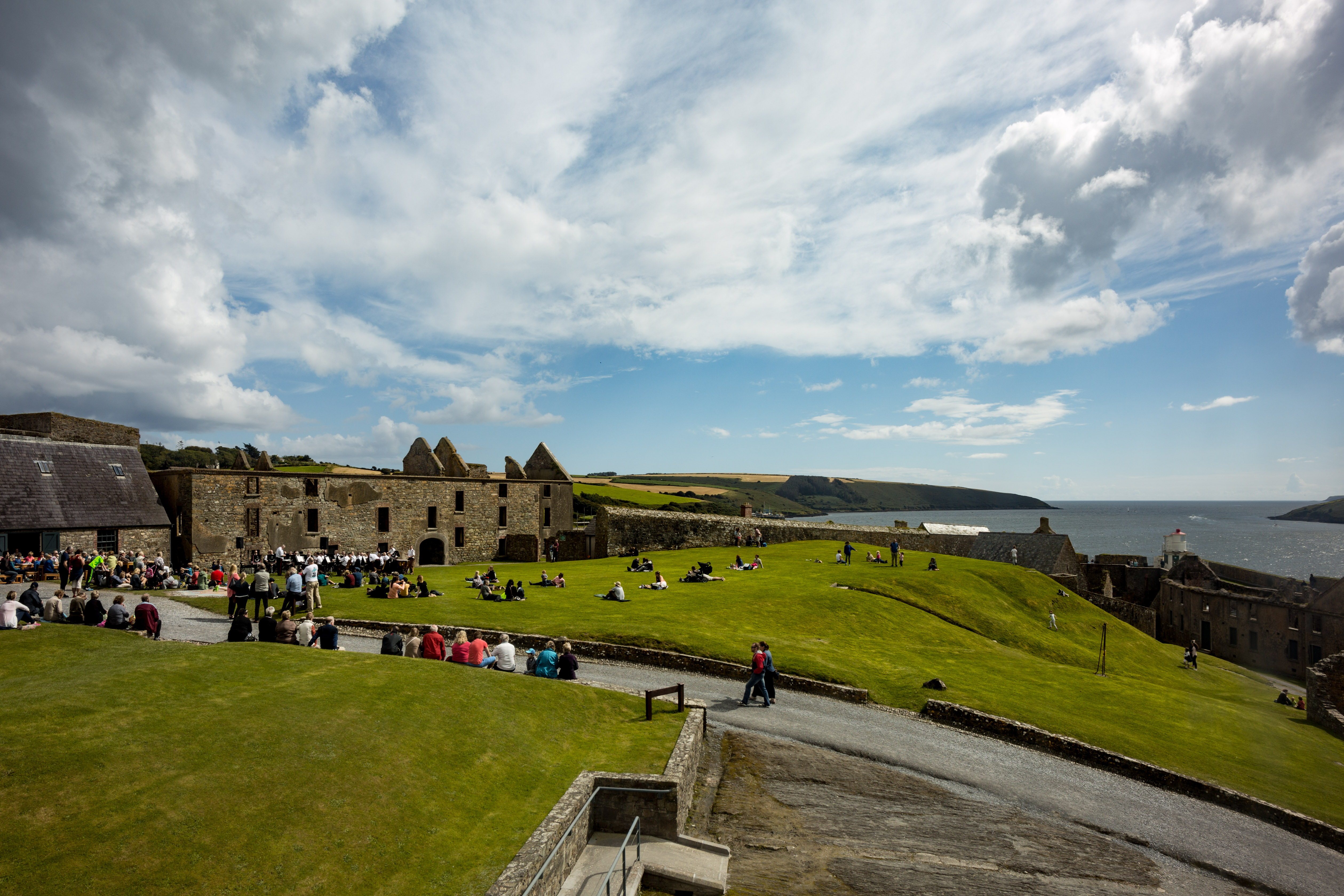 The Band of the 1st Brigade were playing in Charles Fort on the 23 August 2015 for Heritage Week. This shot is from the first floor of the Officer's Building, which has a tinted film on the windows, so the white balance has been corrected to take account of this.